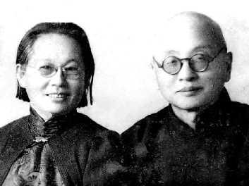 Du Qian and his wife Cheng Jing